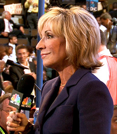 Day 2 on the floor: MSNBC's Joe Scarborough and Andrea Mitchell (cropped from flickr version).